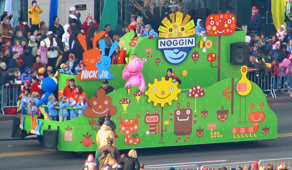 A float created to advertise Nickelodeon's Noggin brand at the 2005 American Thanksgiving Parade.